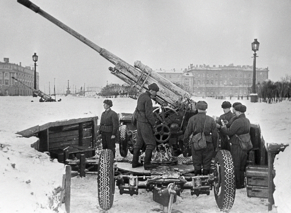 “Soviet anti-aircraft gunners in Leningrad”. Soviet anti-aircraft gunners preparing a gun for the battle in Marsovo Pole in Leningrad.